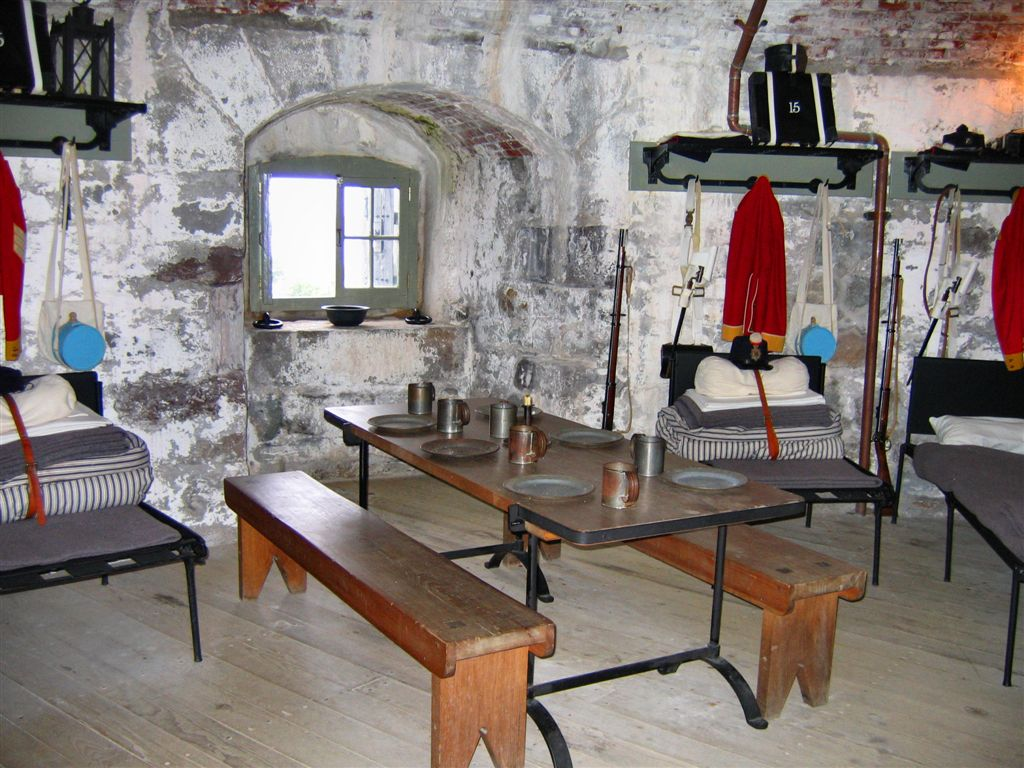 Interior of Martello tower at Saint John, New Brunswick, Canada Image by Gabriele63